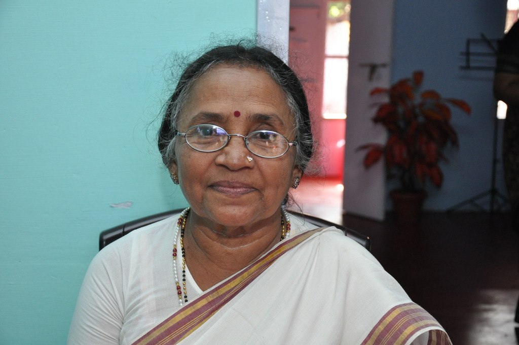 Chavara parukutty, first woman kathakali Artist